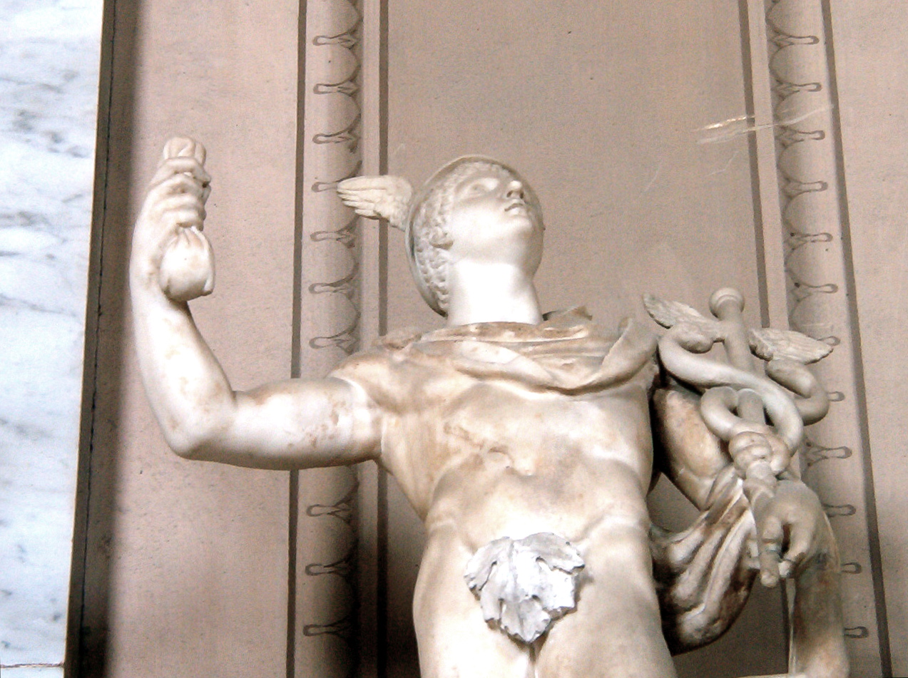 Mercury statue, holding the caduceus, with a fig leaf placed over the genitalia. The fig leaf was placed there under the more "chaste" Popes; later, most such coverings were removed.